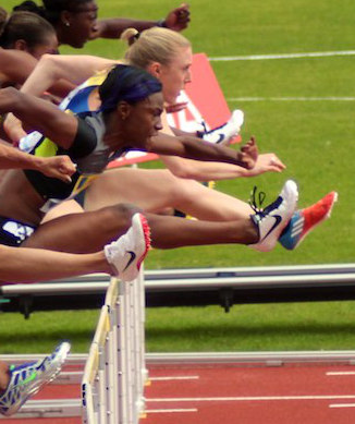 Crystal Palace Grand Prix, Diamond League 2012, Kellie Wells